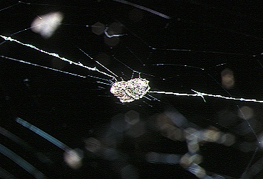 stabilimentum of Philoponella prominens from Okinawa.